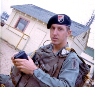 Bruce Rusty Lang, United States Army 6th Special Forces Group, Ft. Bragg, North Carolina, prior to temporary duty deployment to "Project 404" as an Assistant Army Attachè (AARMA) to the U.S. Embassy in Laos. (now Dr. Bruce Rusty Lang, M.D., Christian international physician)